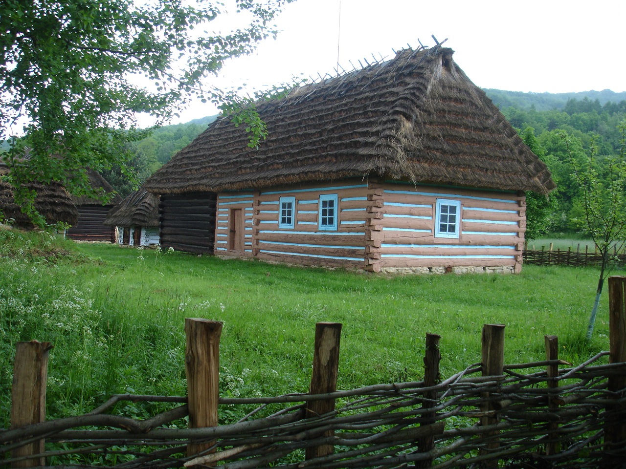 a hut from Rożnowice (formerly Rozenberg) about 1858, object exists in Sanok_Skansen